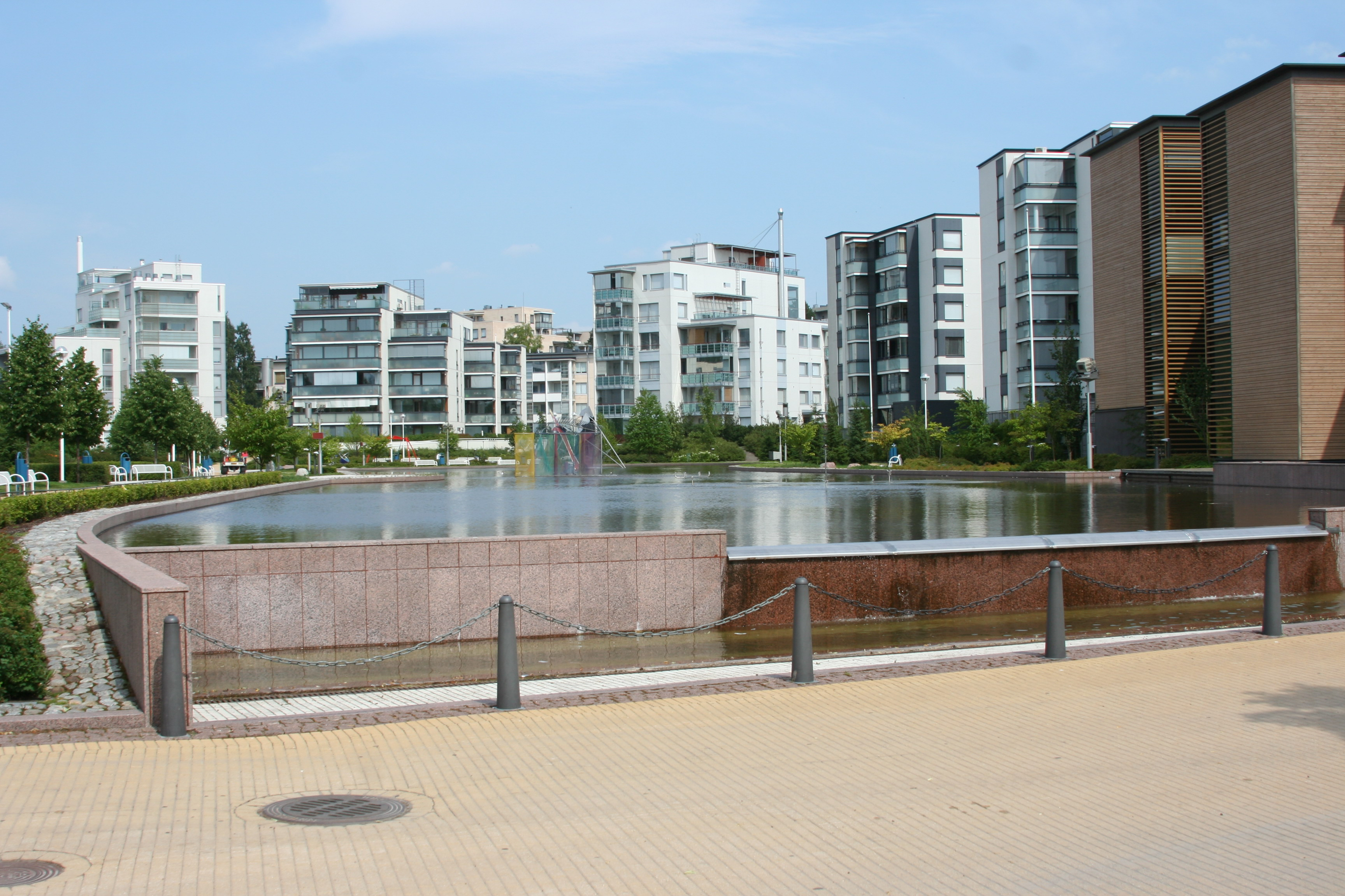 The Central Park of Kerava, Kerava, Finland. Water theme.